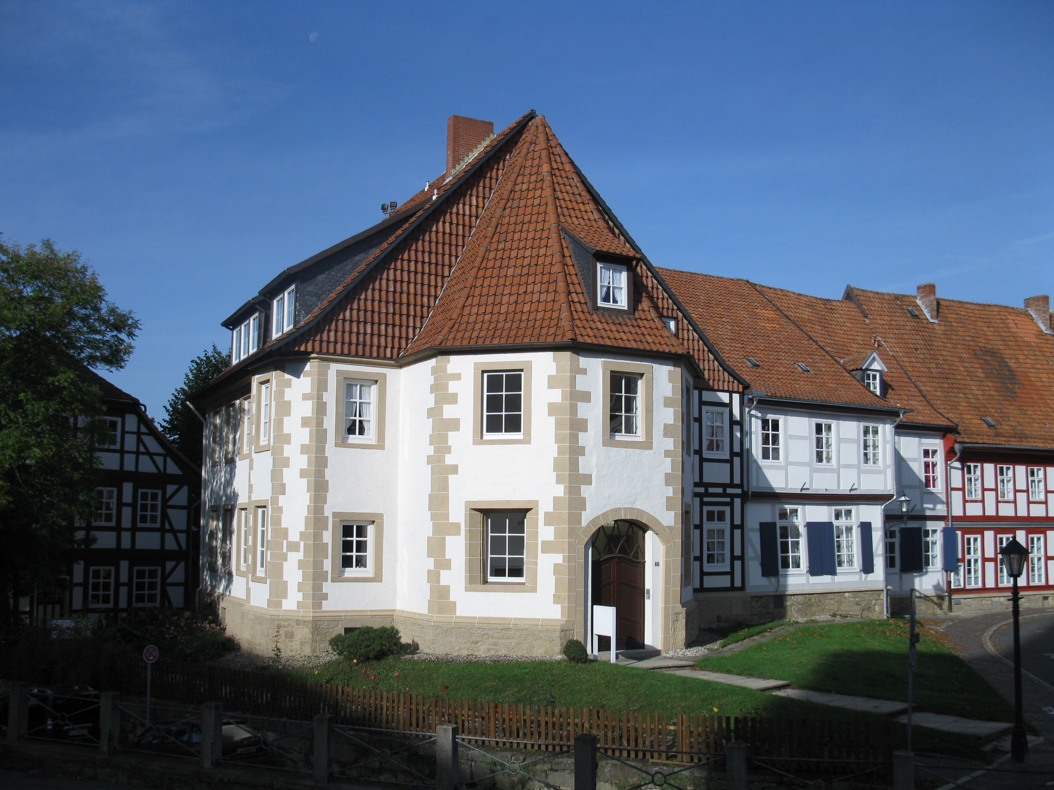 Former St. Nicolai Chapel, Hildesheim, Germany.